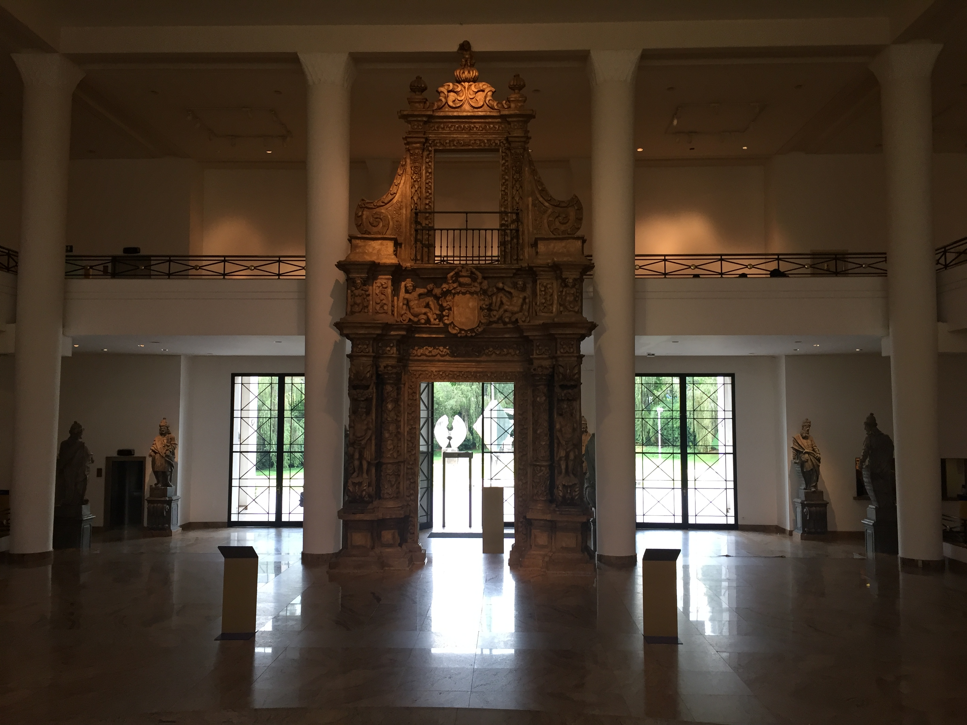 Foto interna do museu